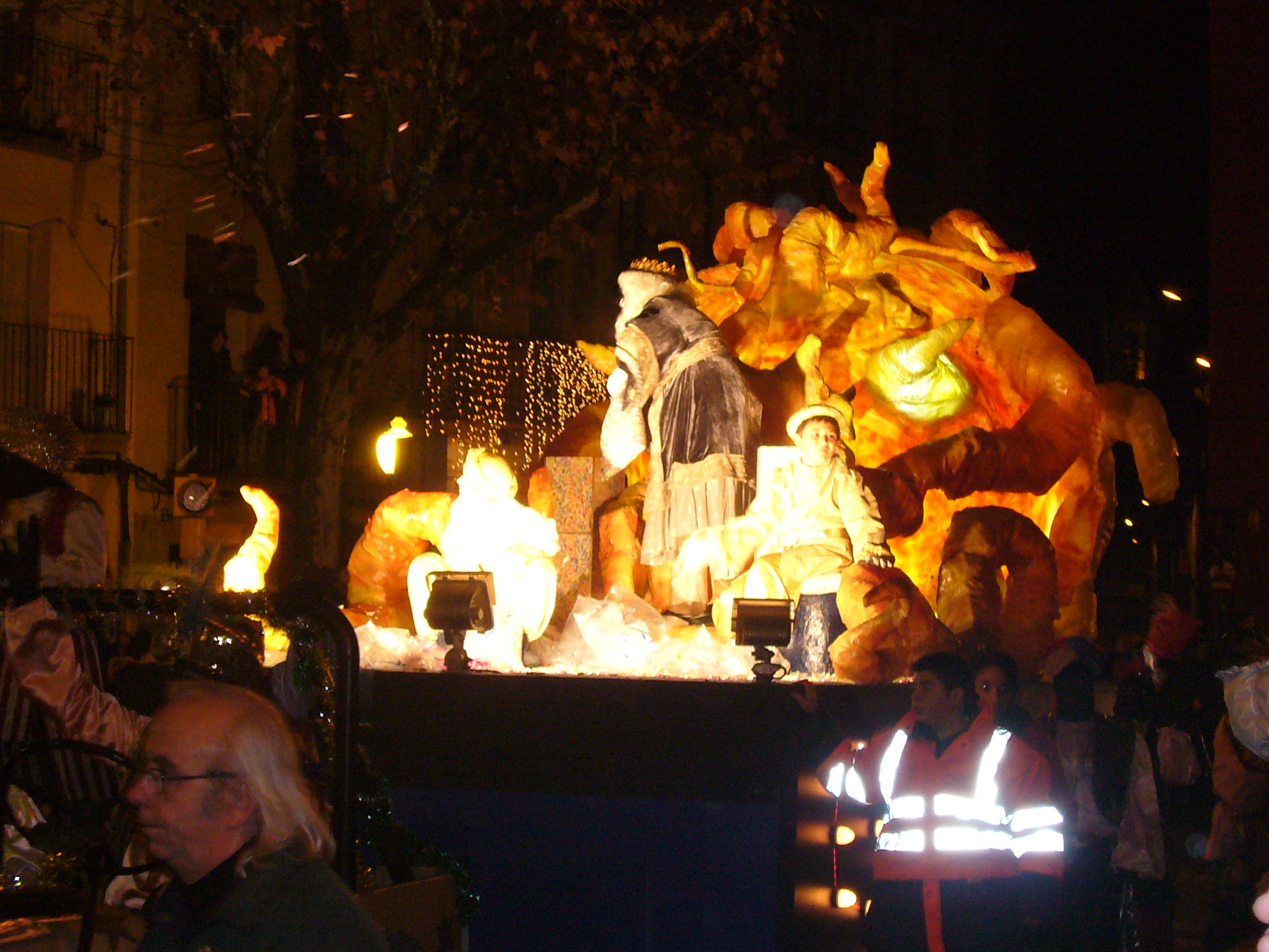 King Melchior at the Cavalcade of Magi in Igualada